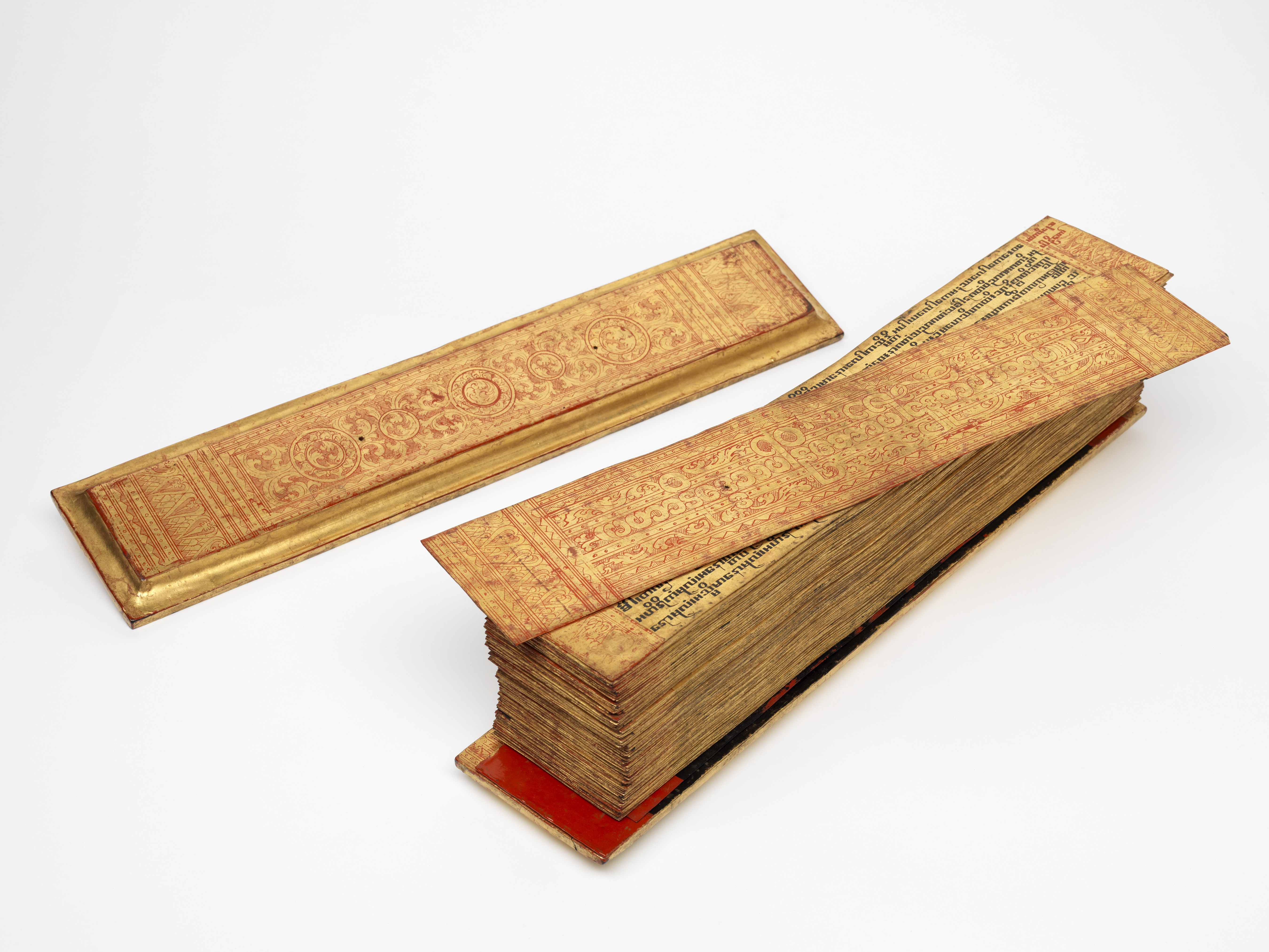 Burmese-Pali Manuscript Asian Collection